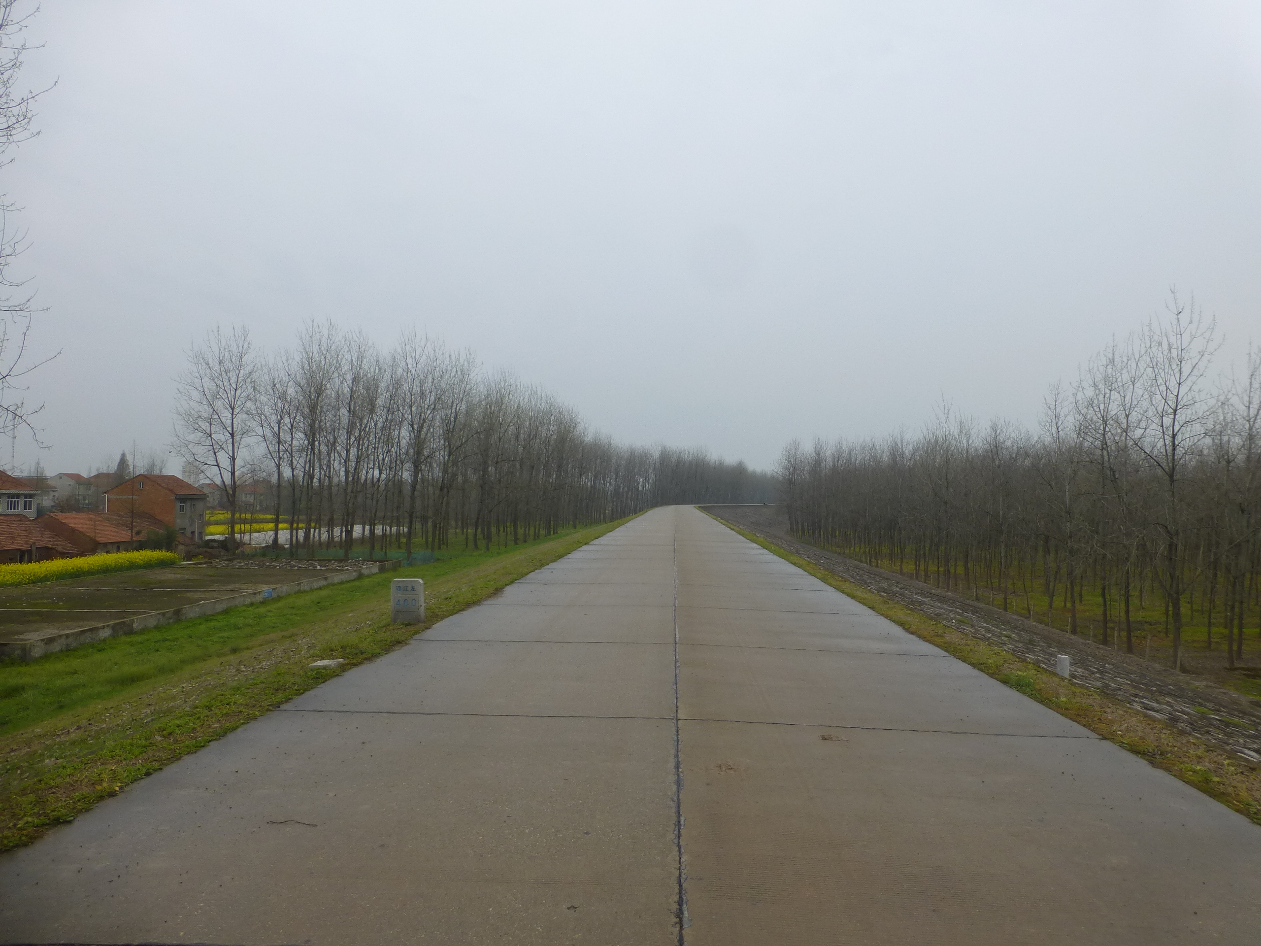 Xintan Town, Honghu City, Jingzhou, Hubei, China: a view from the levee that protects the town from the east and north-east, running along the Sihu Trunk Canal.